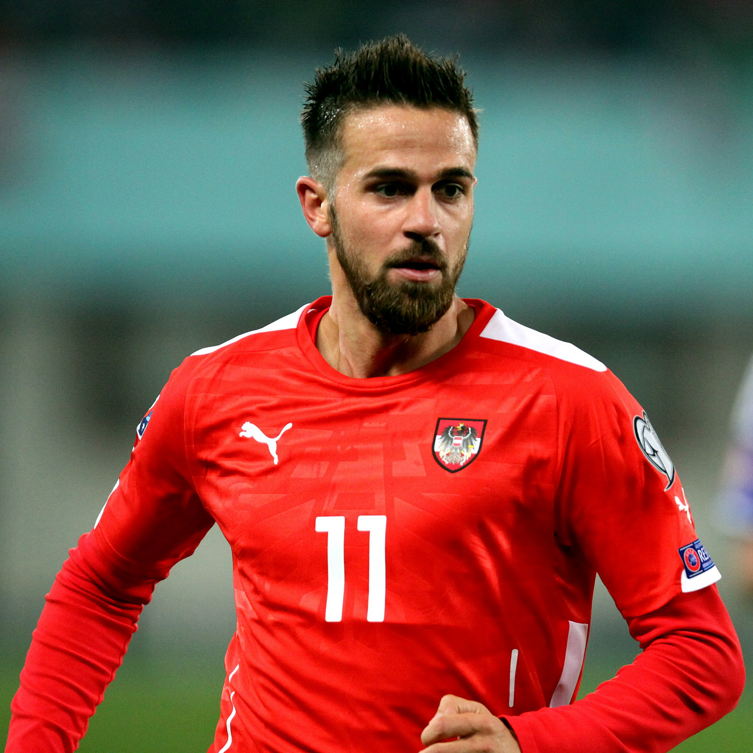 UEFA Euro 2016 qualifying, Group G – Austria (red shirts) vs. Liechtenstein (blue shirts) 3–0 (1–0) on 2015-10-12 in Ernst-Happel-Stadion, Vienna – The photo shows Martin Harnik